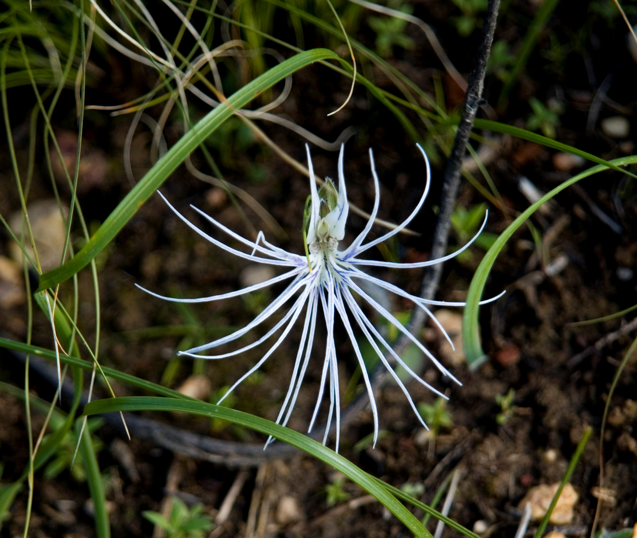 Bartholina burmanniana - The Spider Orchid. A geophyte from Western Cape Renosterveld vegetation. South Africa.